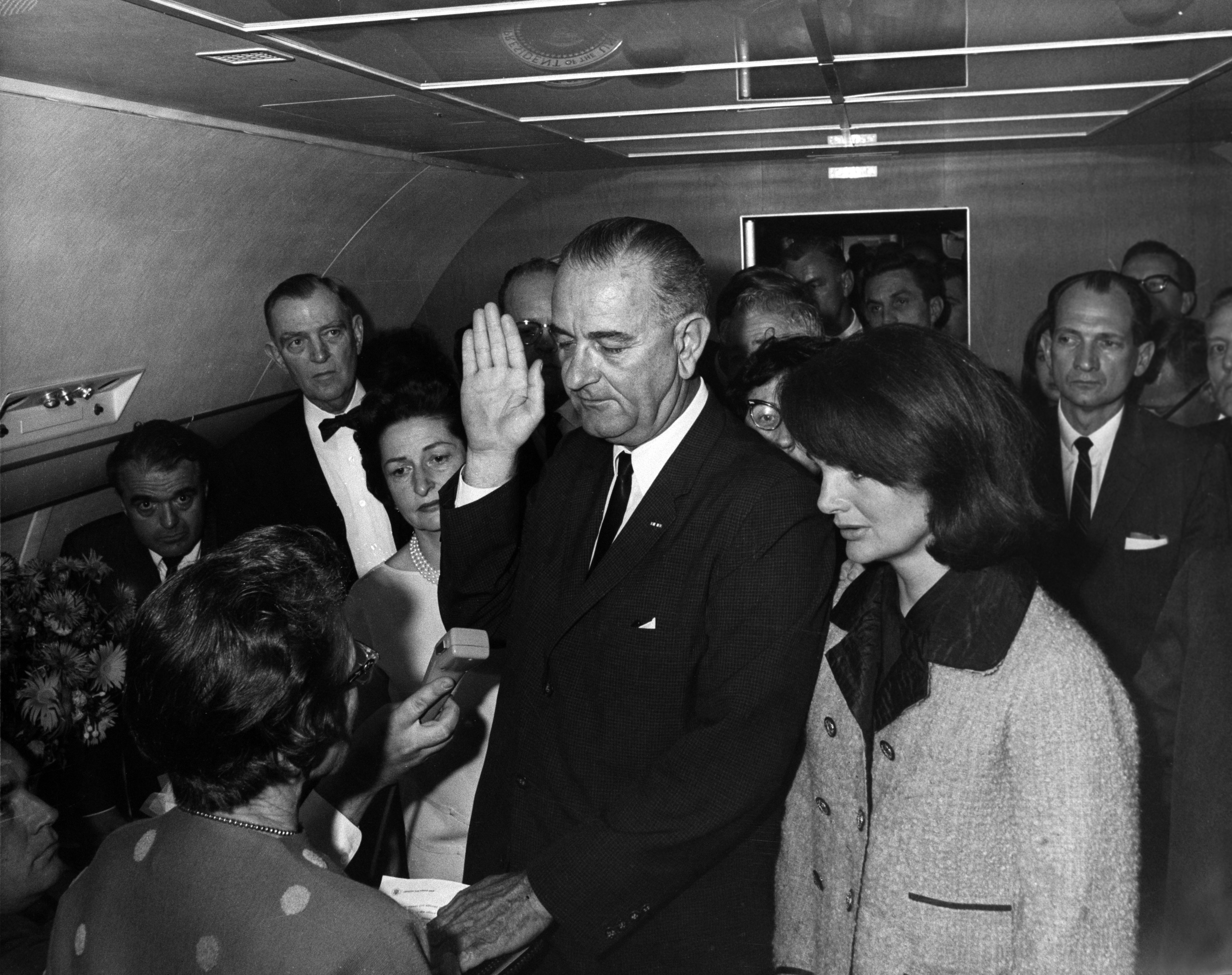 Lyndon B. Johnson taking the oath of office aboard Air Force One at Love Field Airport two hours and eight minutes after the assassination of John F. Kennedy, Dallas, Texas. Jackie Kennedy (right), still in her blood-soaked clothes, looks on. Left to right: Mac Kilduff (holding dictating machine), Judge Sarah T. Hughes, Jack Valenti, Congressman Albert Thomas, Marie Fehmer (behind Thomas), First Lady Lady Bird Johnson, Dallas Police Chief Jesse Curry, President Lyndon B. Johnson, Evelyn Lincoln (eyeglasses only visible above LBJ's shoulder), Congressman Homer Thornberry (in shadow, partially obscured by LBJ), Roy Kellerman (partially obscured by Thornberry), Lem Johns (partially obscured by Mrs. Kennedy), former First Lady Jacqueline Kennedy, Pamela Turnure (behind Brooks), Congressman Jack Brooks, Bill Moyers (mostly obscured by Brooks), White House correspondent Sid Davis (behind Brooks, looking down)